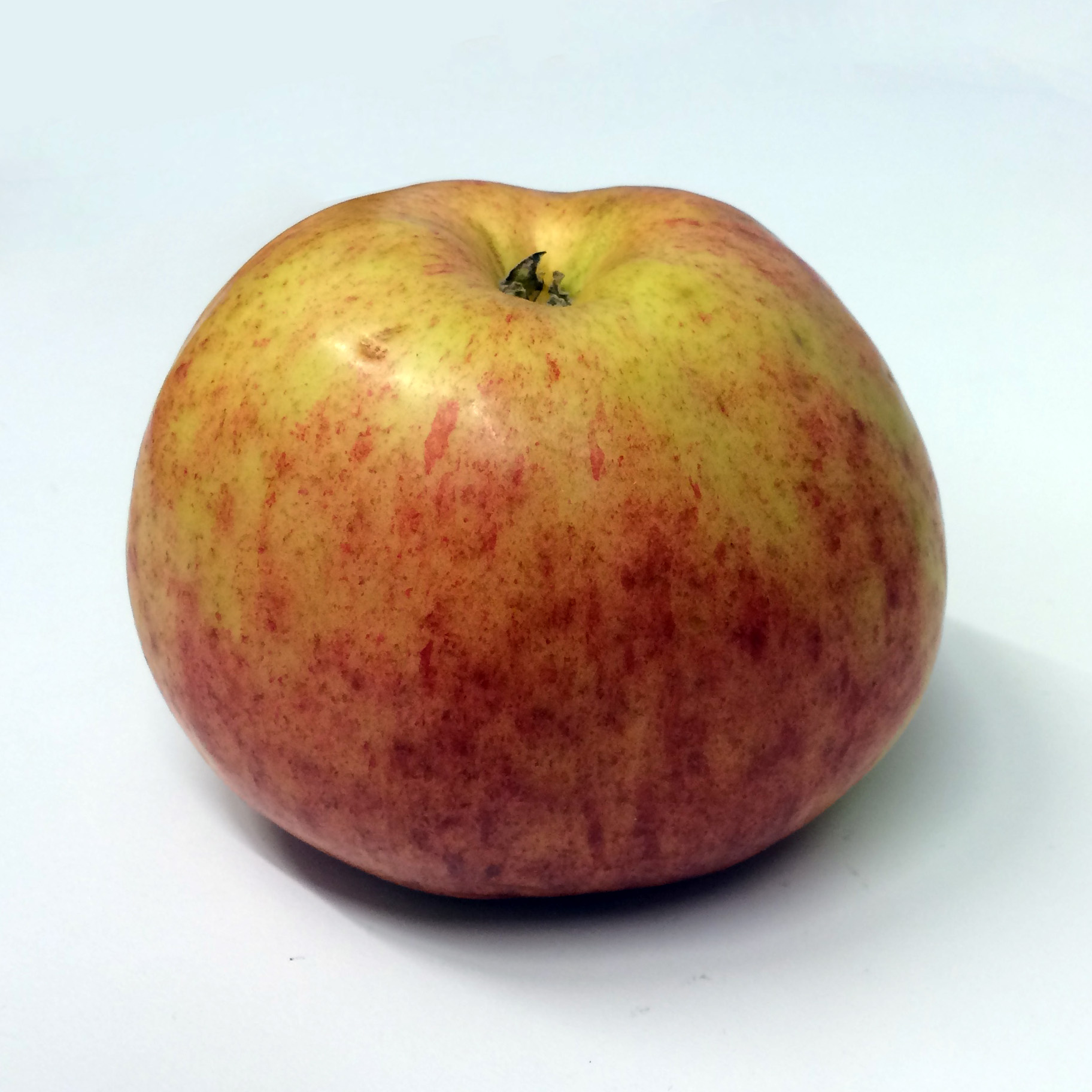 Apple of the cultivar Queen, photographed in conjunction with the Apple Festival at Nordiska museet, Stockholm, Sweden in September 2014.